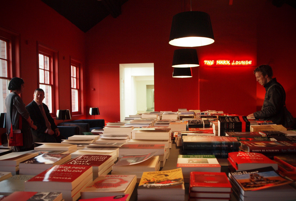 Alfredo Jaar - The Marx Lounge - Liverpool Biennial 2010 (Touched)